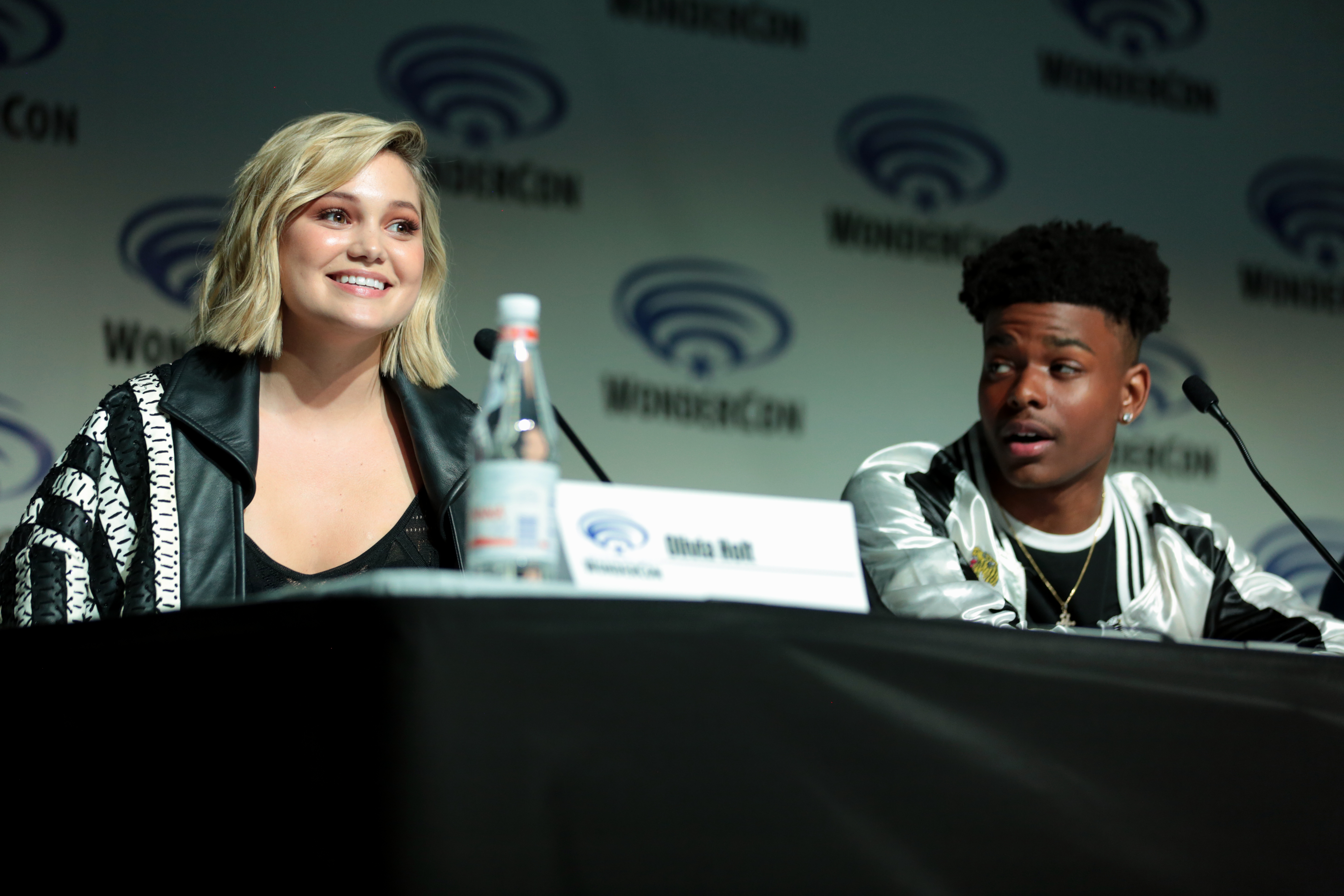 Olivia Holt and Aubrey Joseph speaking at the 2018 WonderCon, for "Cloak & Dagger", at the Anaheim Convention Center in Anaheim, California.